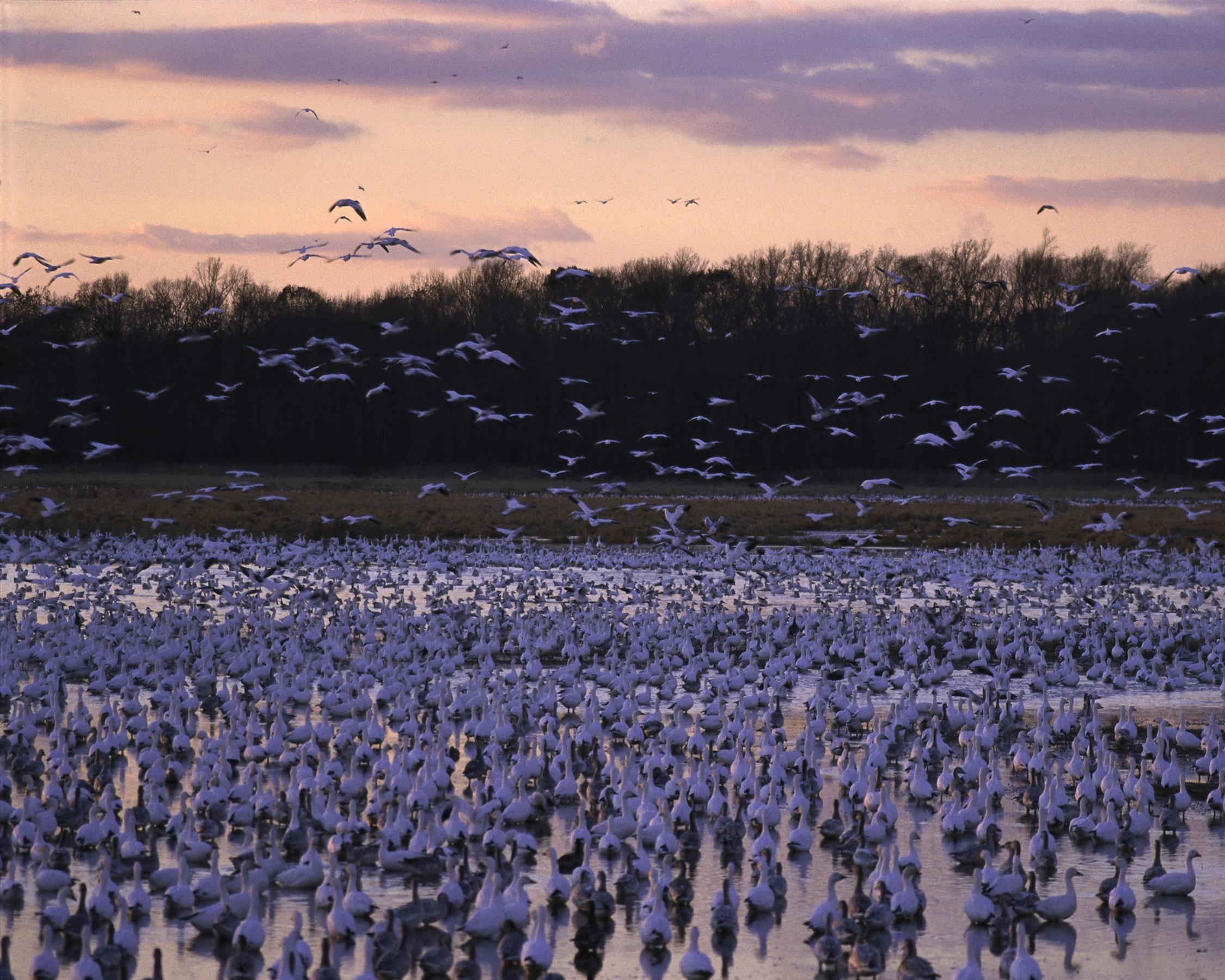 Bombay Hook NWR, Smyrna, Delaware: hundreds of thousands of ducks and geese arrive in the fall to rest and feed before heading further south or to winter over.